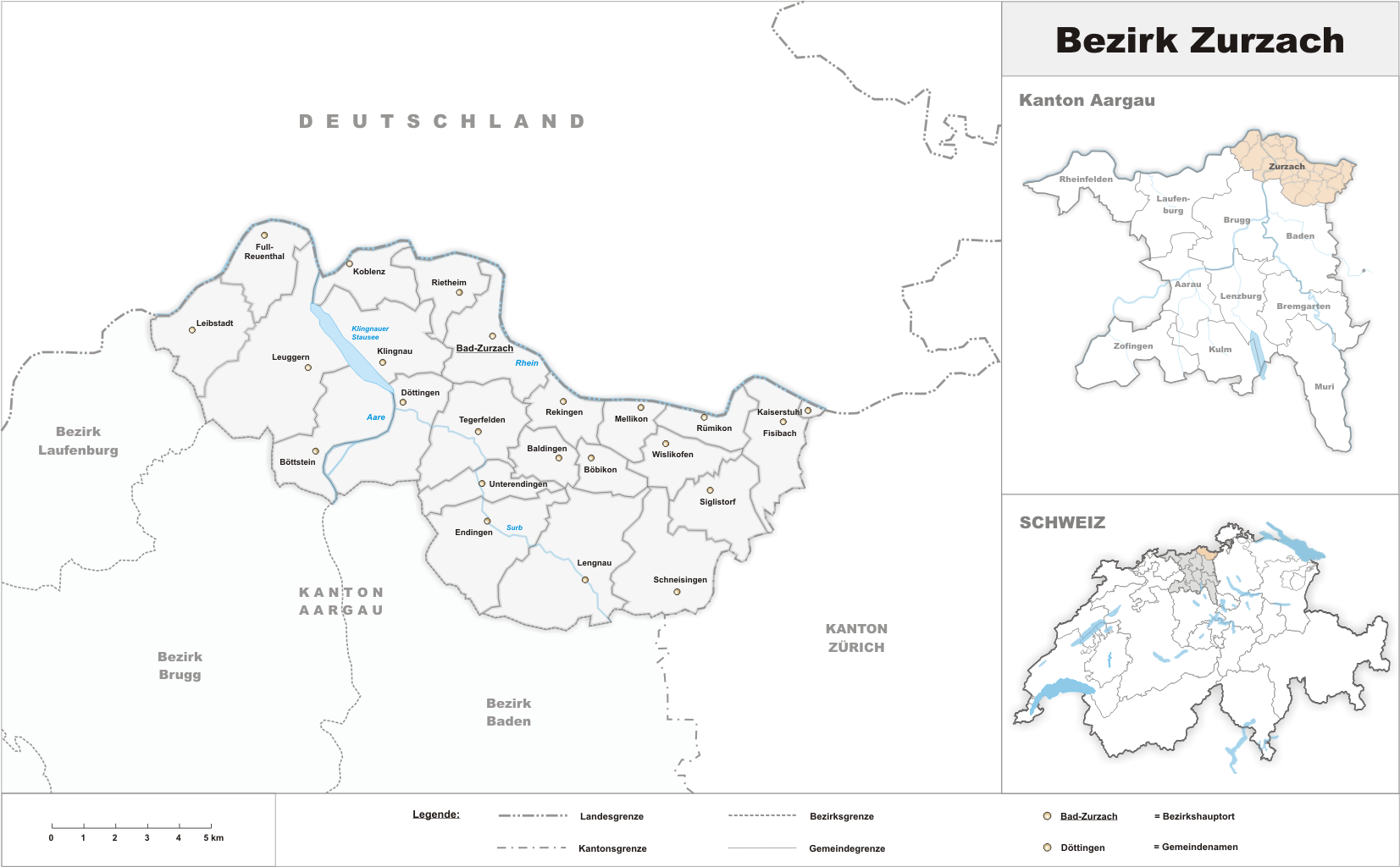 Municipalities in the district of Zurzach